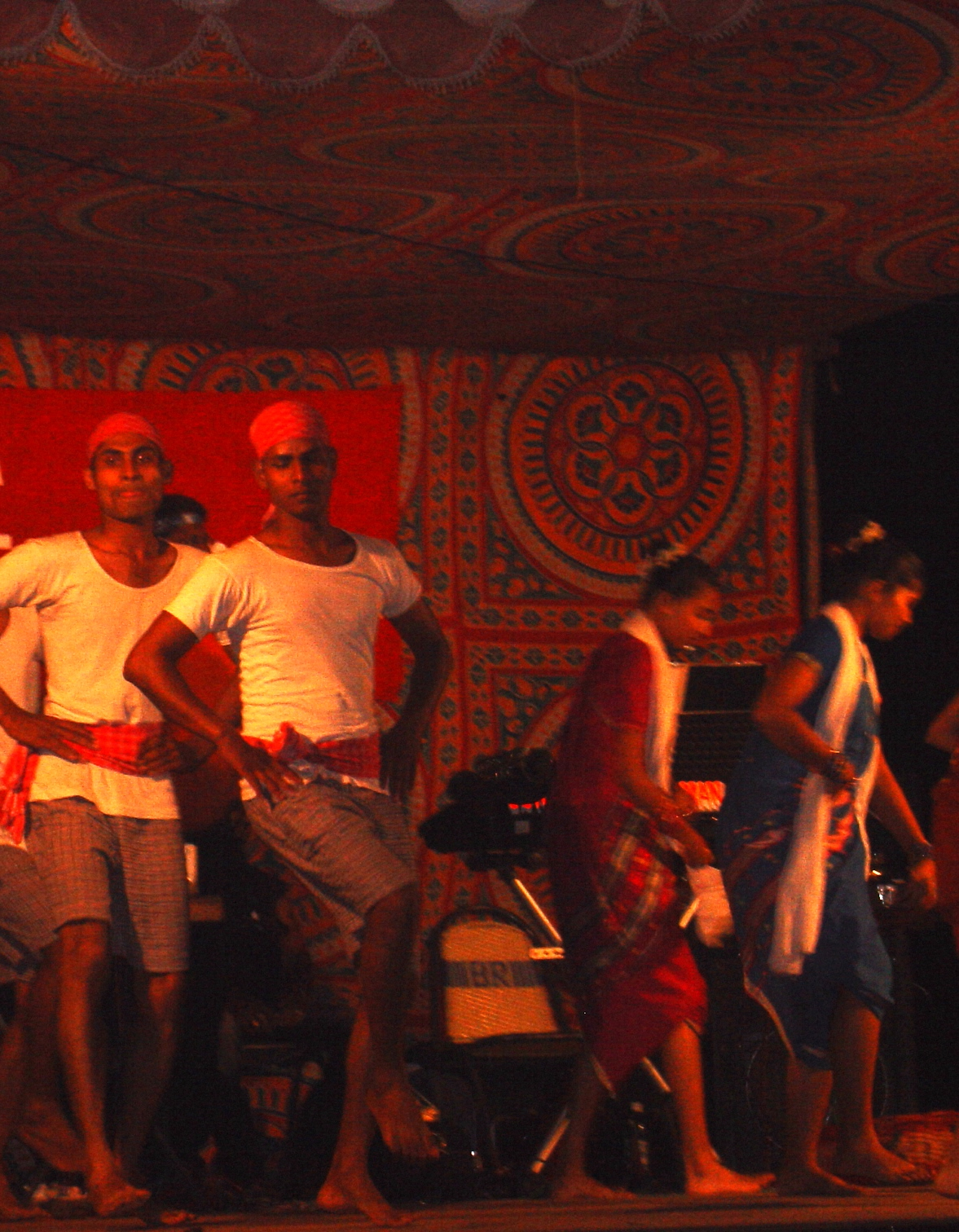 Photograph of Goan Kunbi dancers. (Contrast digitally adjusted and date stamped cropped by Fowler&fowler (talk) 17:21, 11 October 2011 (UTC))